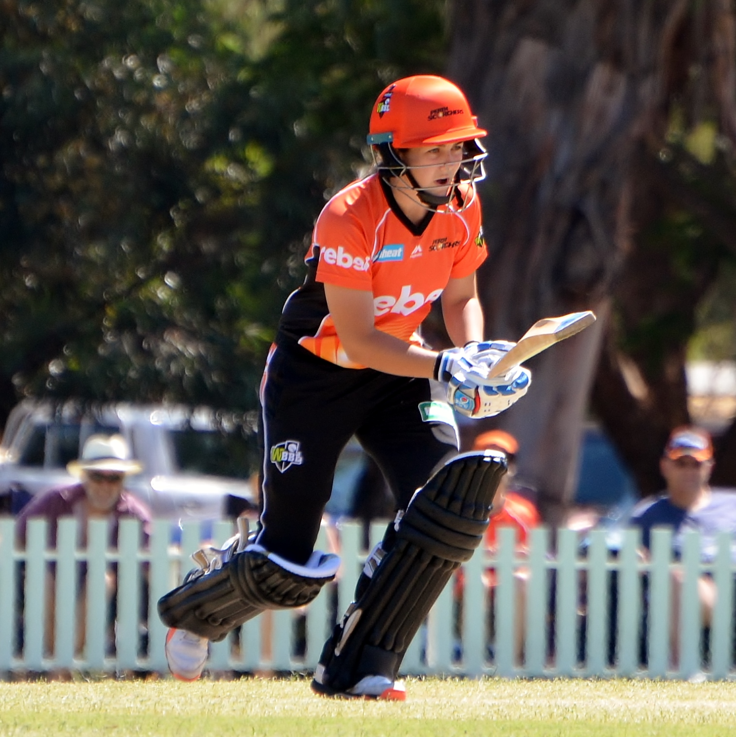 Heather Graham batting for Perth Scorchers (WBBL) against Sydney Thunder (WBBL) at Lilac Hill Park, Perth, Australia.